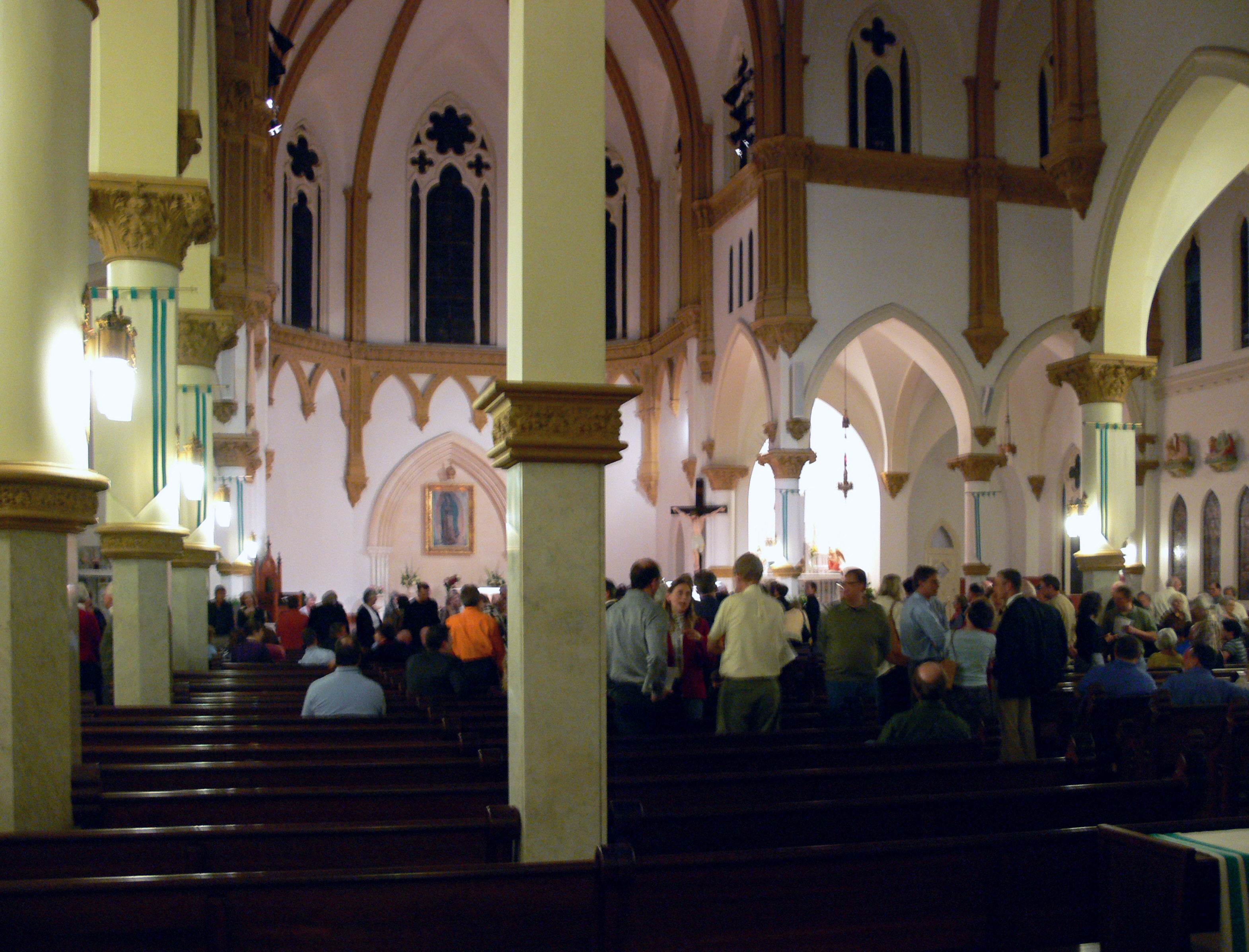 Dallas, Texas, Roman Catholic Cathedral Santuario de Guadalupe Interior during the intermission of an evening concert